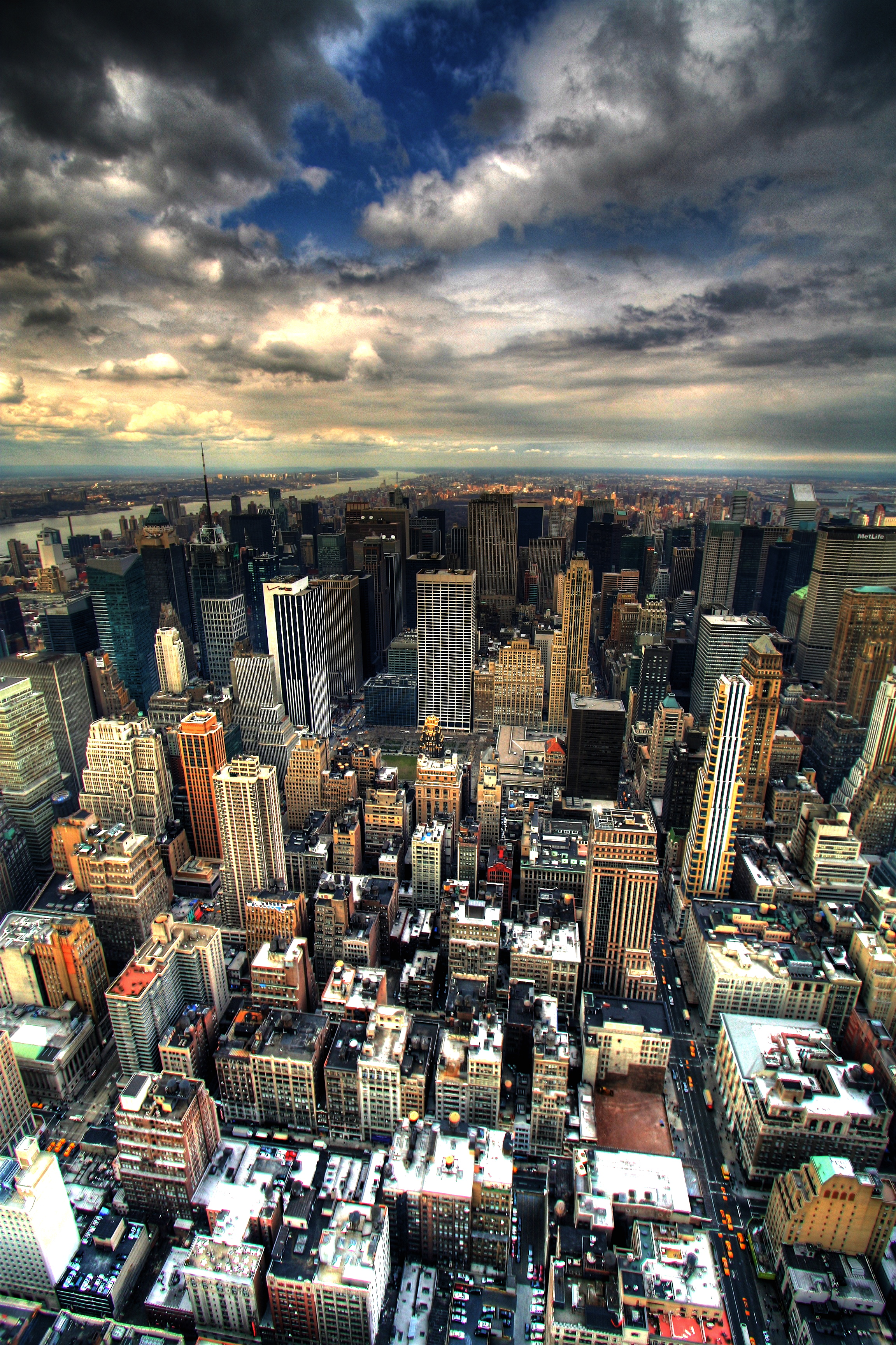 Manhattan as seen from the North-facing side of the Empire State Building observatory.